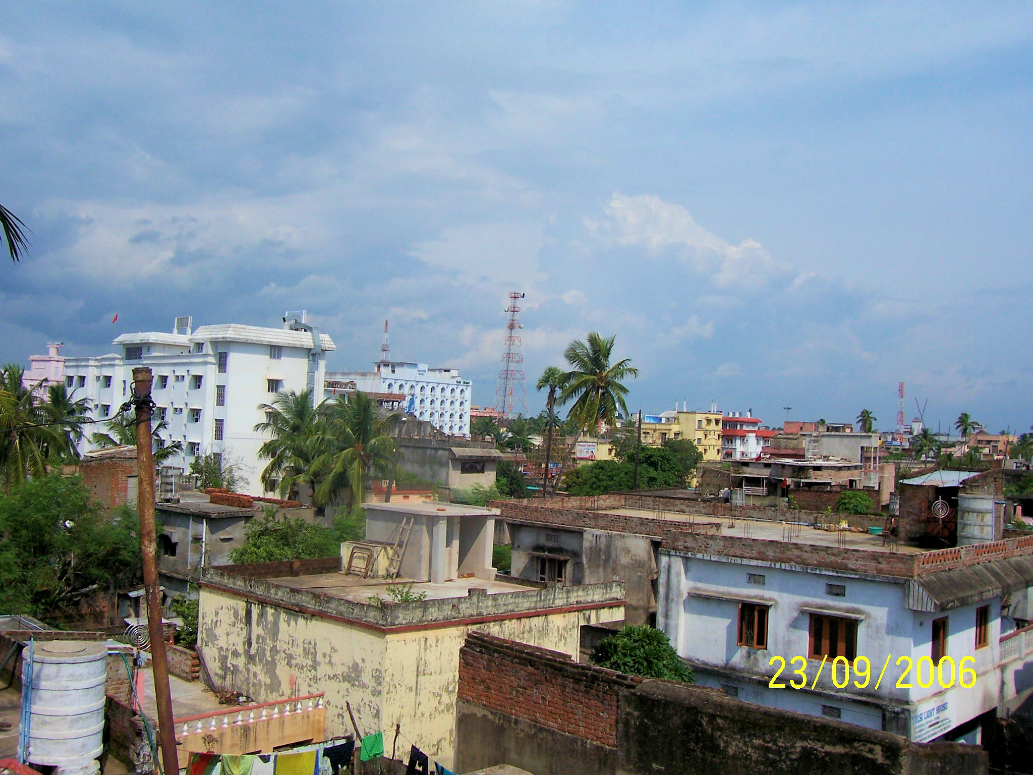 An view of Cuttack my My roof-top.